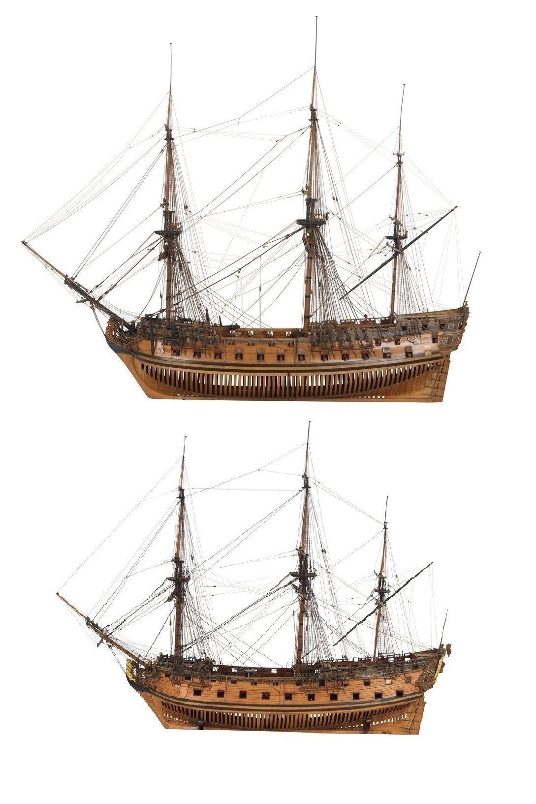 Contemporary model of a British 70-gun 3rd rate ship of the line from the 1740s counterposed to a 50-gun 4th rate ship of the line from the 1720s, to scale.